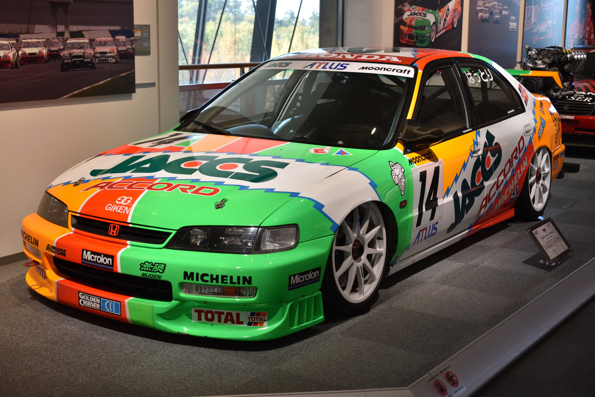 HONDA JACCS ACCORD (Naoki Hattori, JTCC 1996)